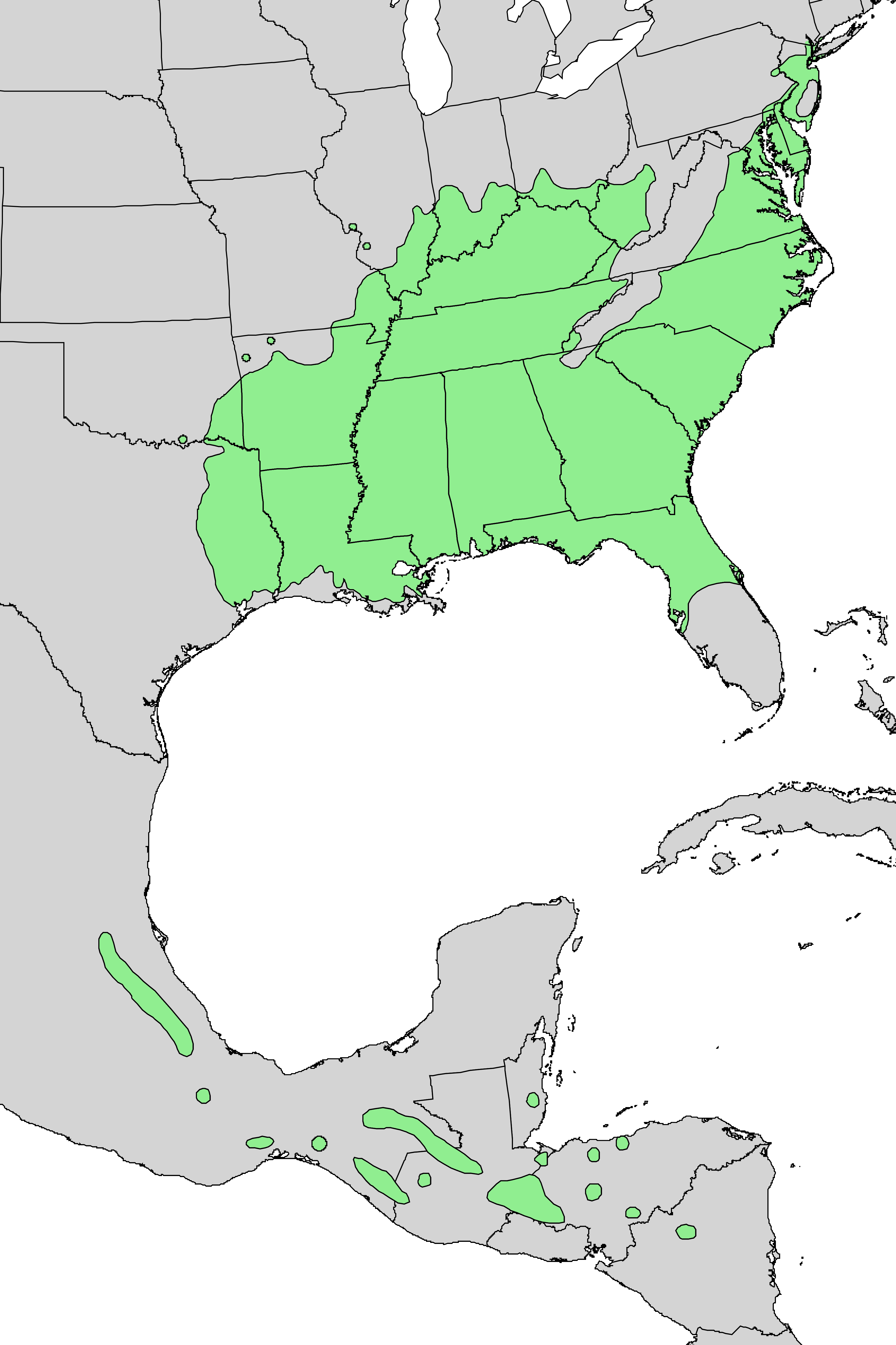 Natural distribution map for Liquidambar styraciflua (sweetgum)